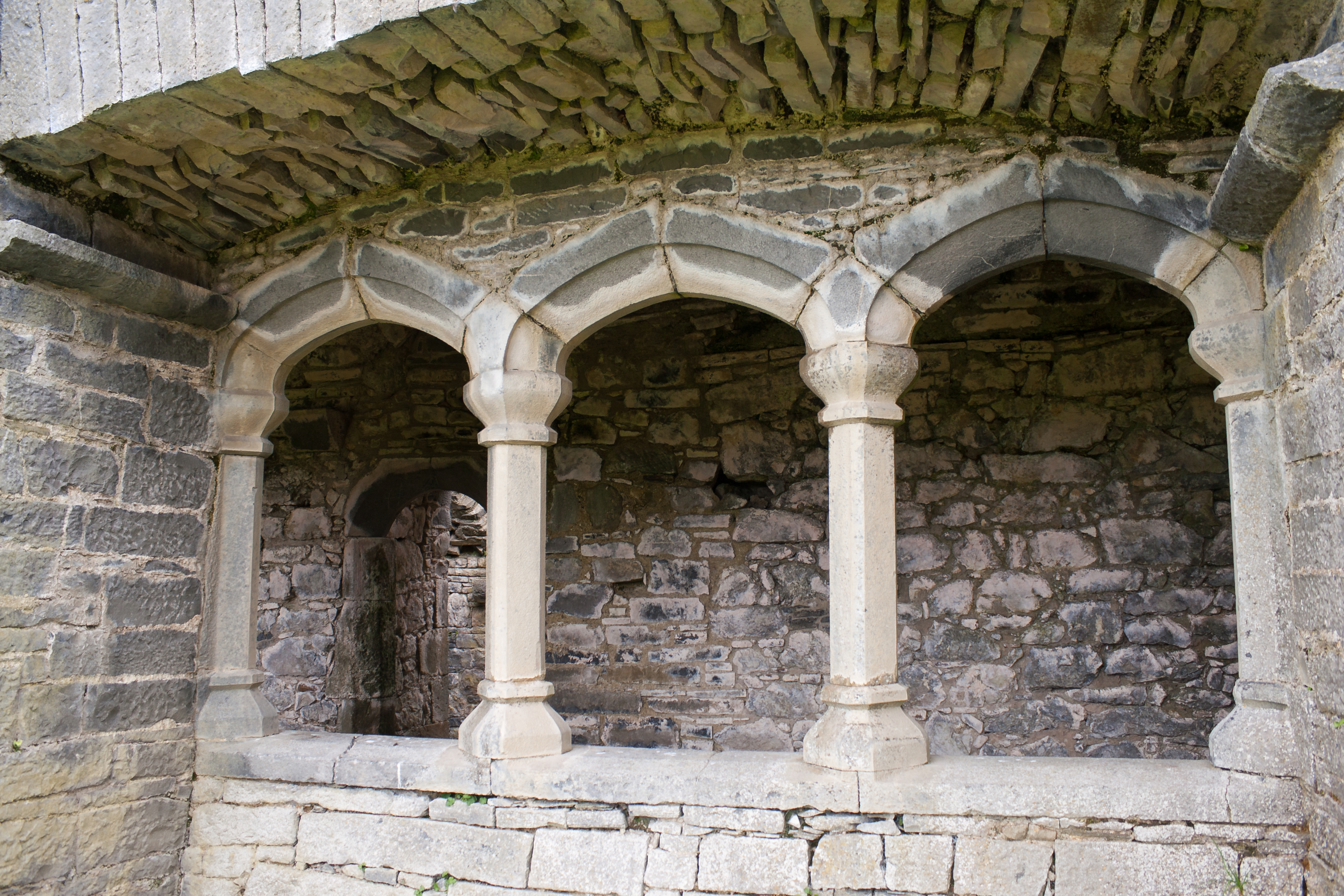 Arcades of the northern cloister walk, as seen from the cloister garden.